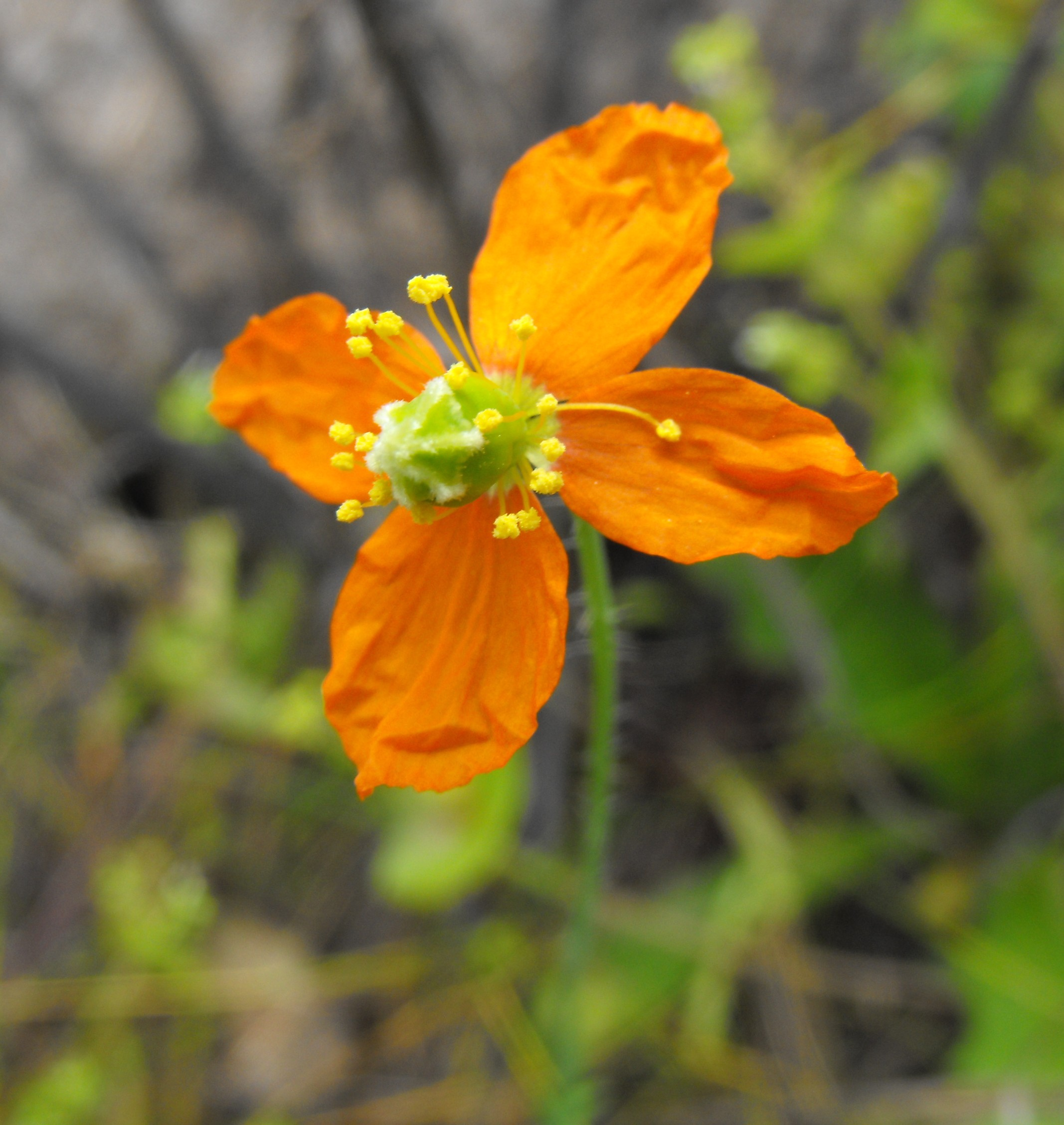 Papaver californicum — Fire poppy. At Lake Poway, in San Diego County, NW Peninsular Ranges, Southern California.